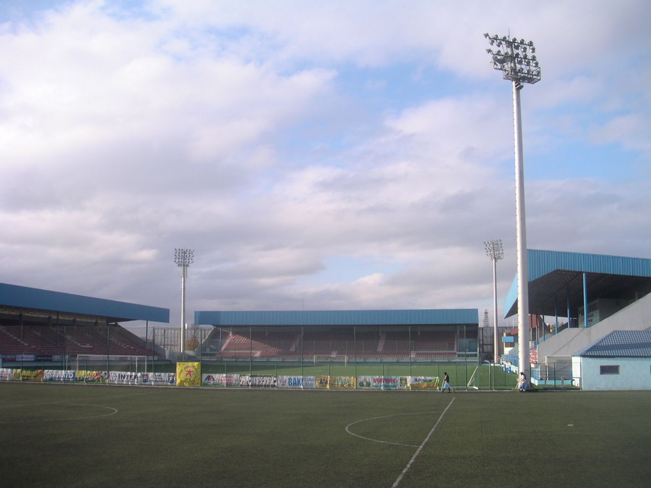 Shafa Stadium in Baku, Azerbaijan, home of FC Inter Baku.